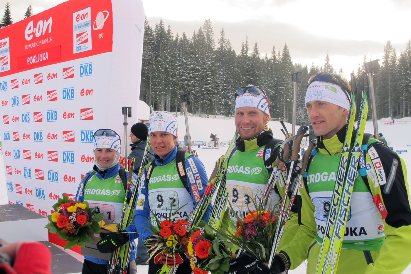 Pokljuka biathlon world cup in 2010